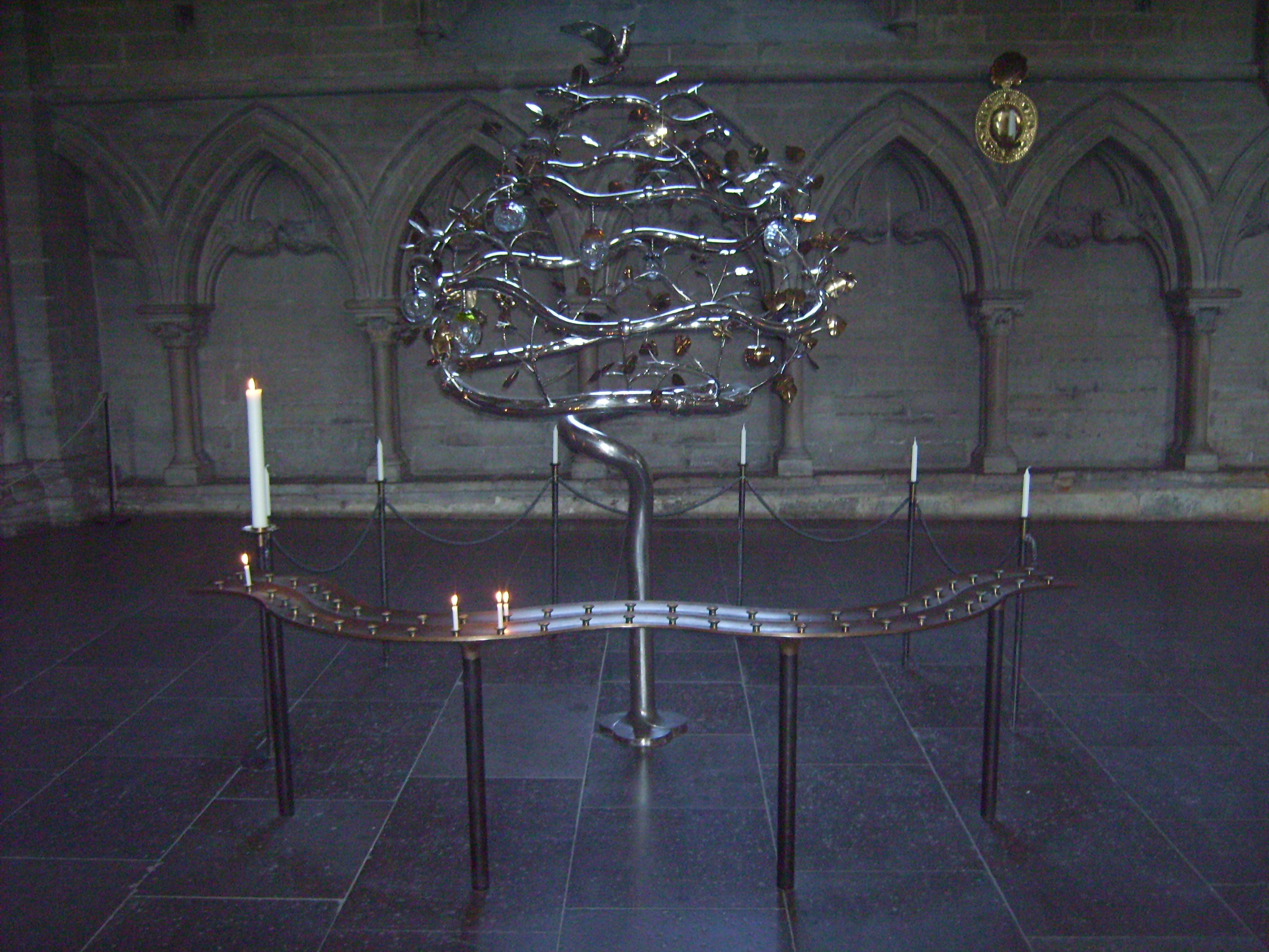 Photo by Harri Blomberg.